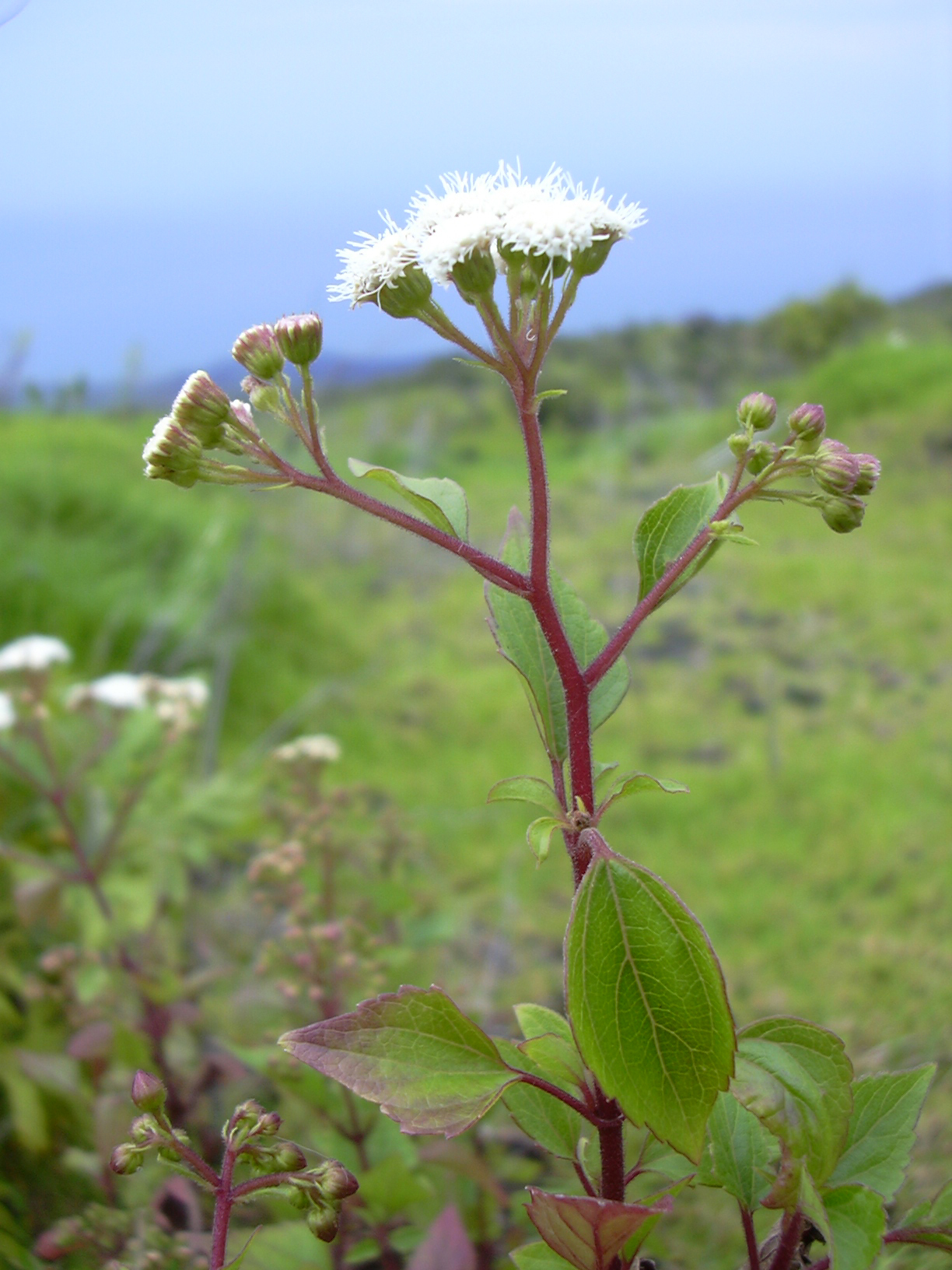 Ageratina adenophora (flowers). Location: Maui, Auwahi